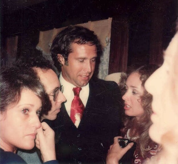 Chevy Chase at the private party after the premiere of the movie A Star is Born, on the third floor of Dillon's Disco